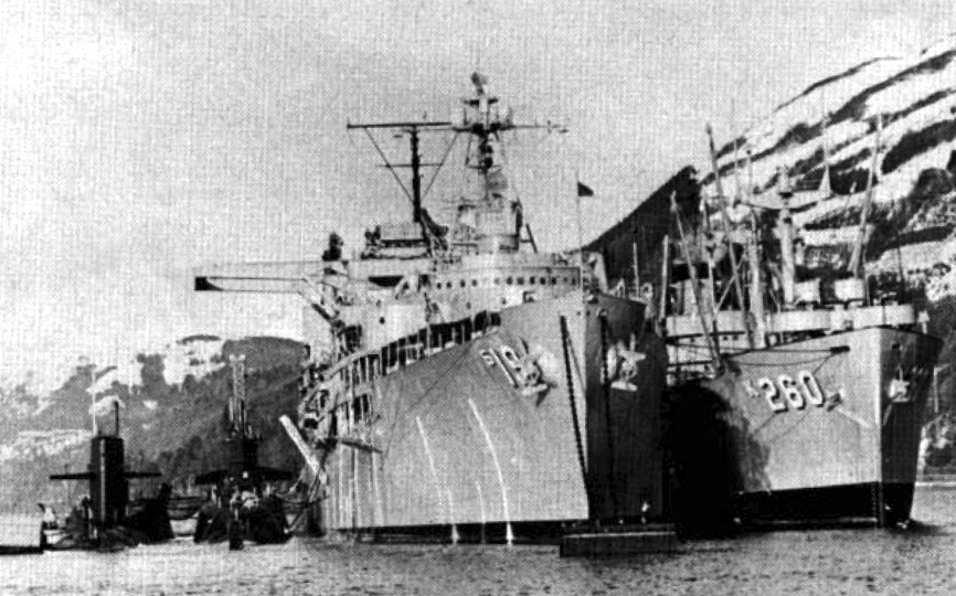 The U.S. Navy submarine tender USS Proteus (AS-19) tending two submarines at Holy Loch, Scotland (UK), circa 1962. To the right is cargo ship USS Betelgeuse (AK-260) which was especially modified to transport the UGM-27 Polaris missiles.